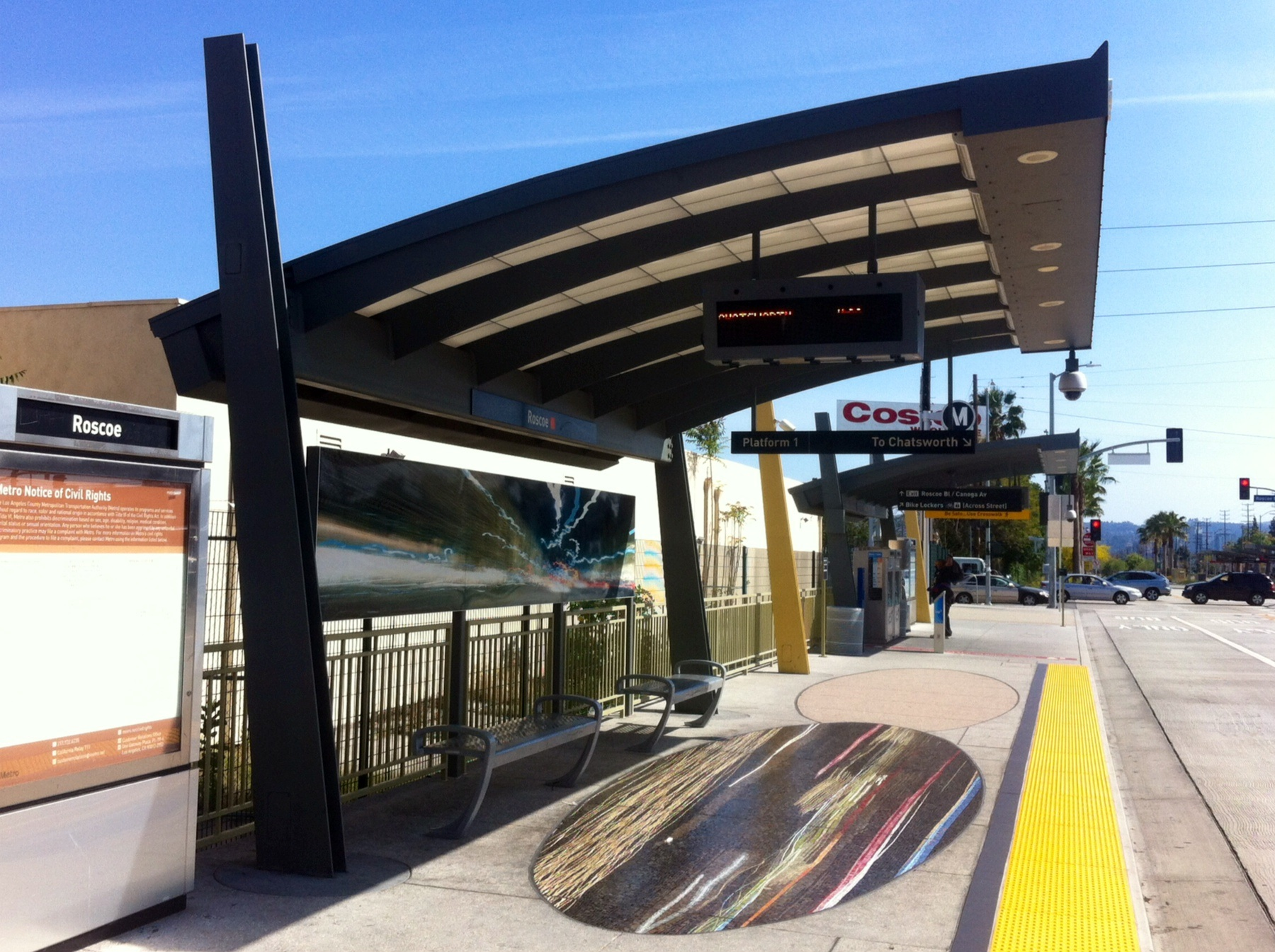 The platform view of Roscoe Station.